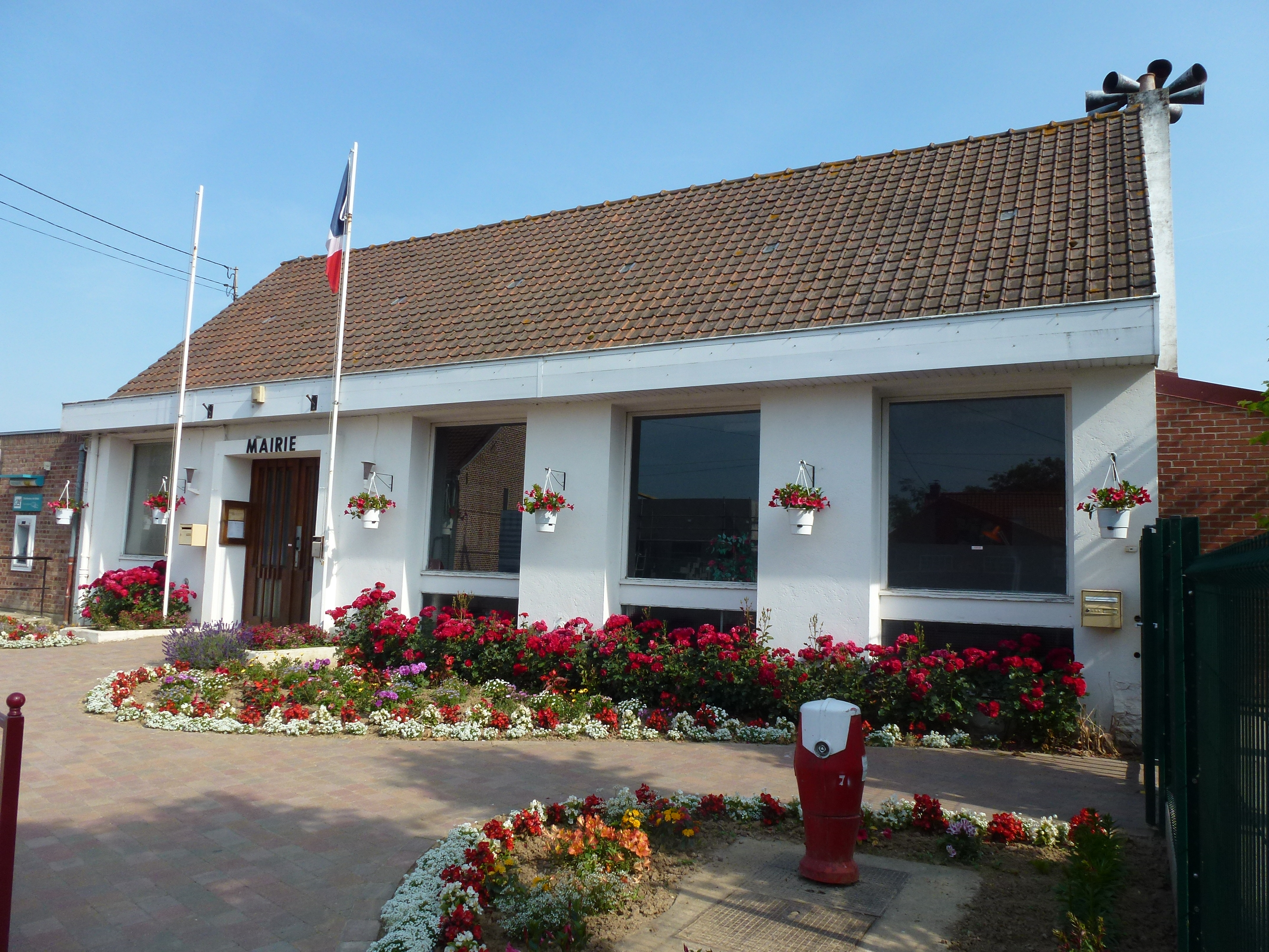 Mametz (Pas-de-Calais, Fr) mairie